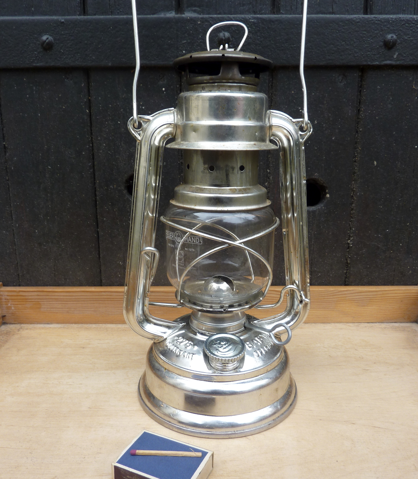 Kerosene lamp of German brand Feuerhand (“Sturmlaterne”), model 276 Baby Special; presumed year of production 2010. Frontal view of the tin-plated lamp.